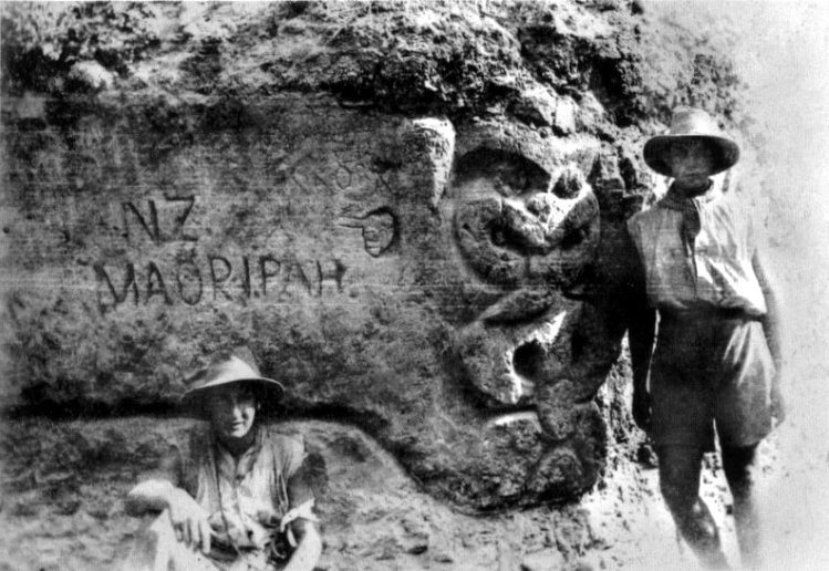 An Anzac trench at Gallipoli with a Maori carving.